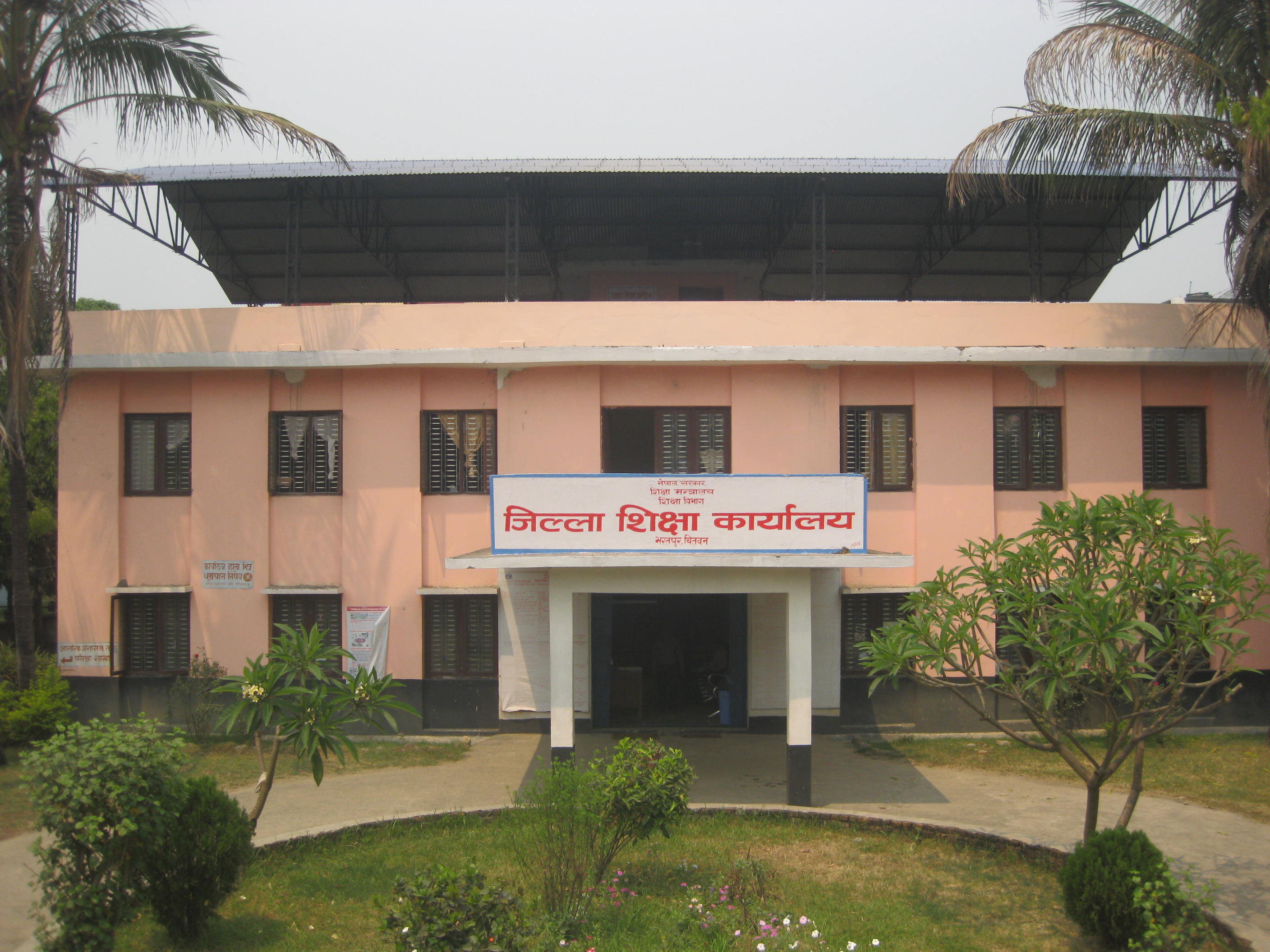 District Education Office Chitwan नेपाली: जिल्ला शिक्षा कार्यालय चितवन